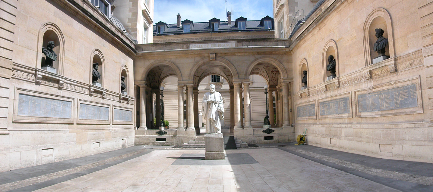 Standing statue of Guillaume Budé in the courtyard of the Collège de France.